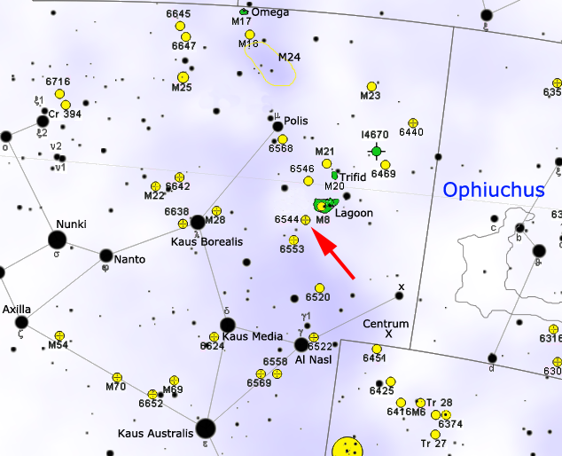 Map of NGC 6544